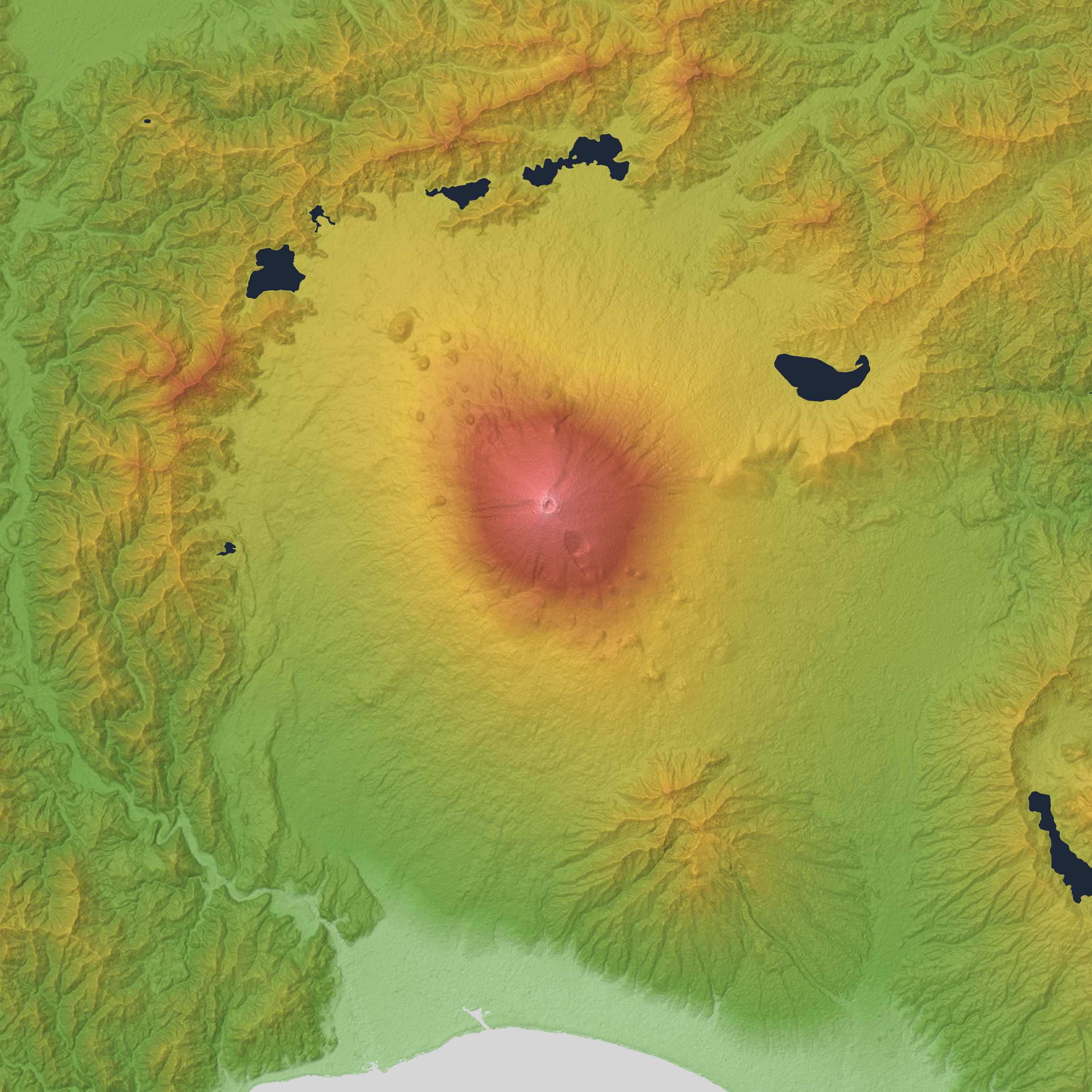 Mount Fuji in the border between Shizuoka and Yamanashi prefectures, Honshu, Japan.